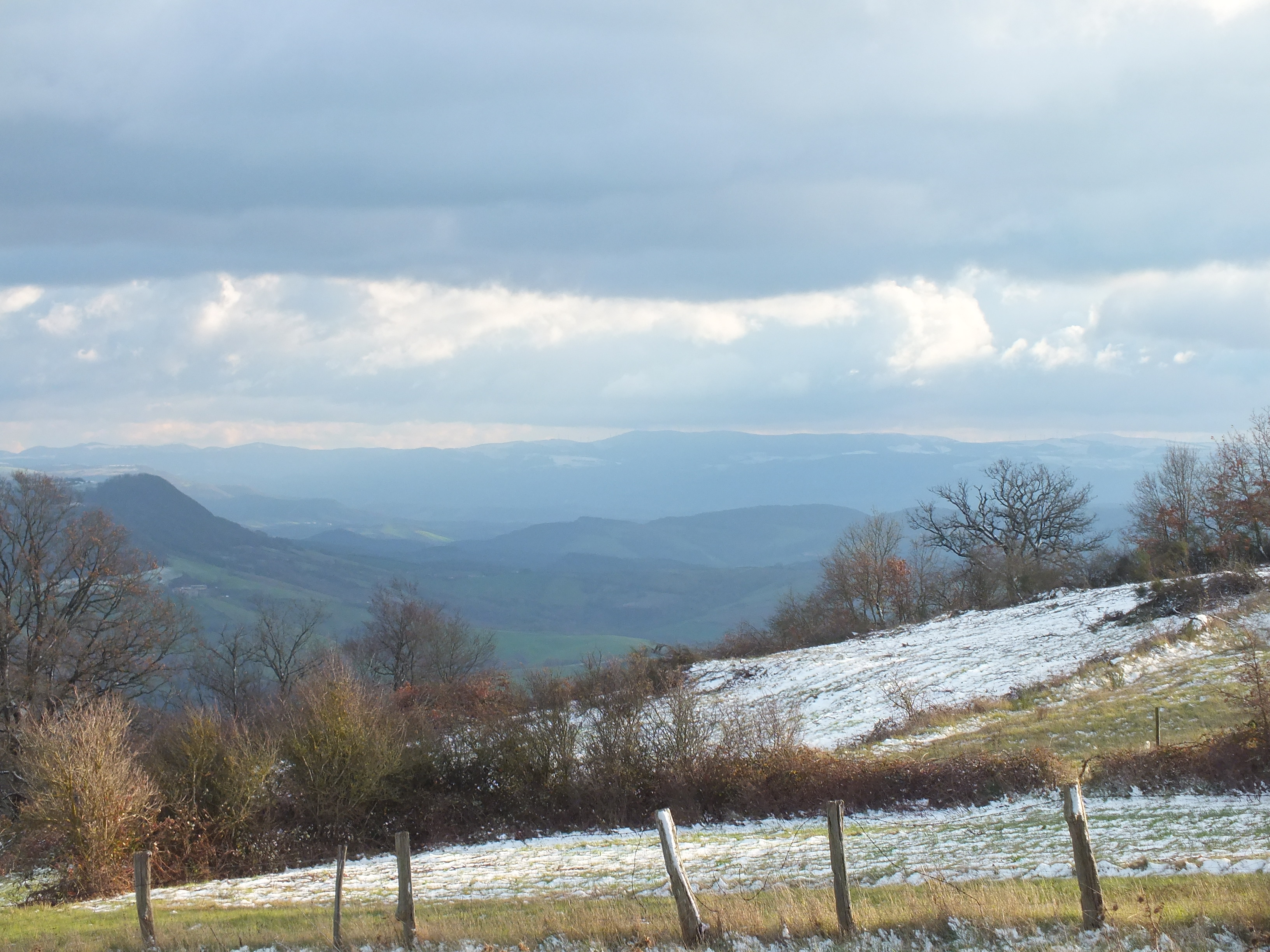 Le Truel on the Tarn Riverin Aveyron. Vista seen from the slopes of Costecalde alt 727m. December sky heavier lies on the souther aspect